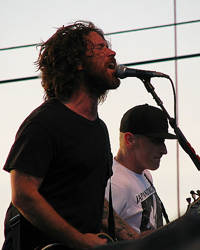 Hot Water Music on the Stone Pony Summer Stage Asbury Park NJ LHCollins 06222013.